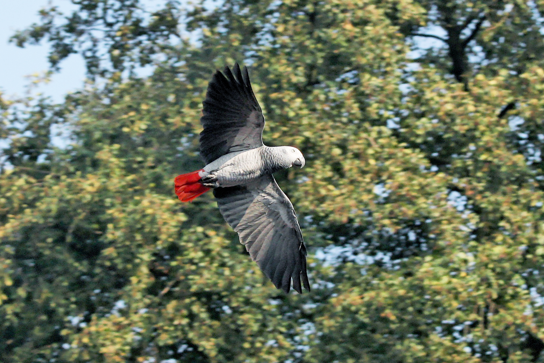 A Congo African Grey Parrot flying.